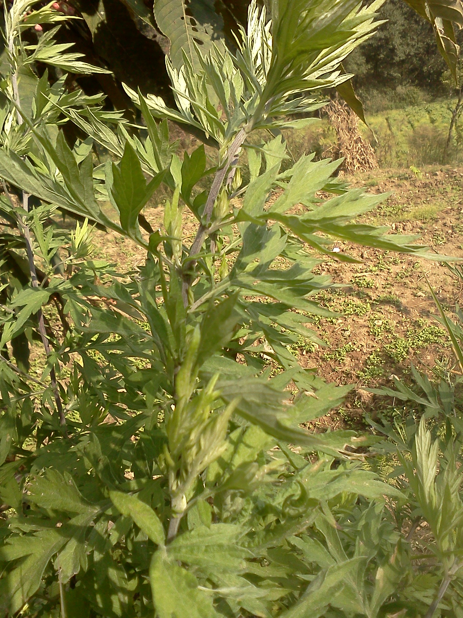 Its commonly found herb, used for medicinal and perfumery